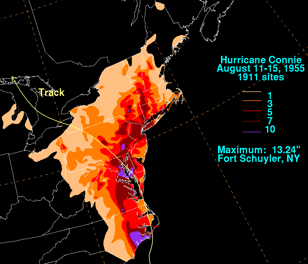 Storm total rainfall map of Hurricane Connie during August 1955.